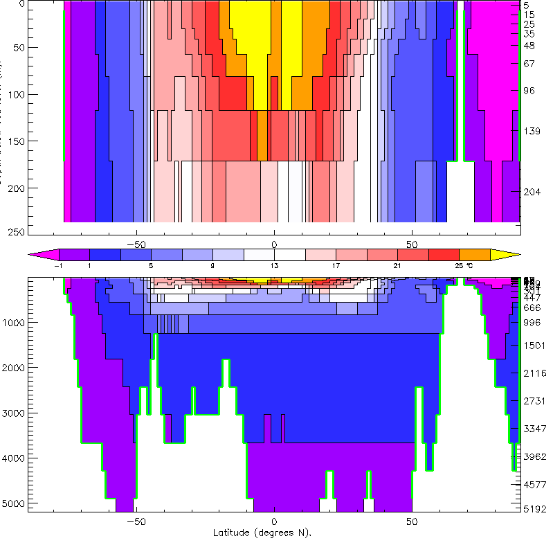 Hadcm3 ocean temperatures (annual mean) at 180 E. Upper picture: upper 250m. Lower picture: full depth. By William M. Connolley using IDL.